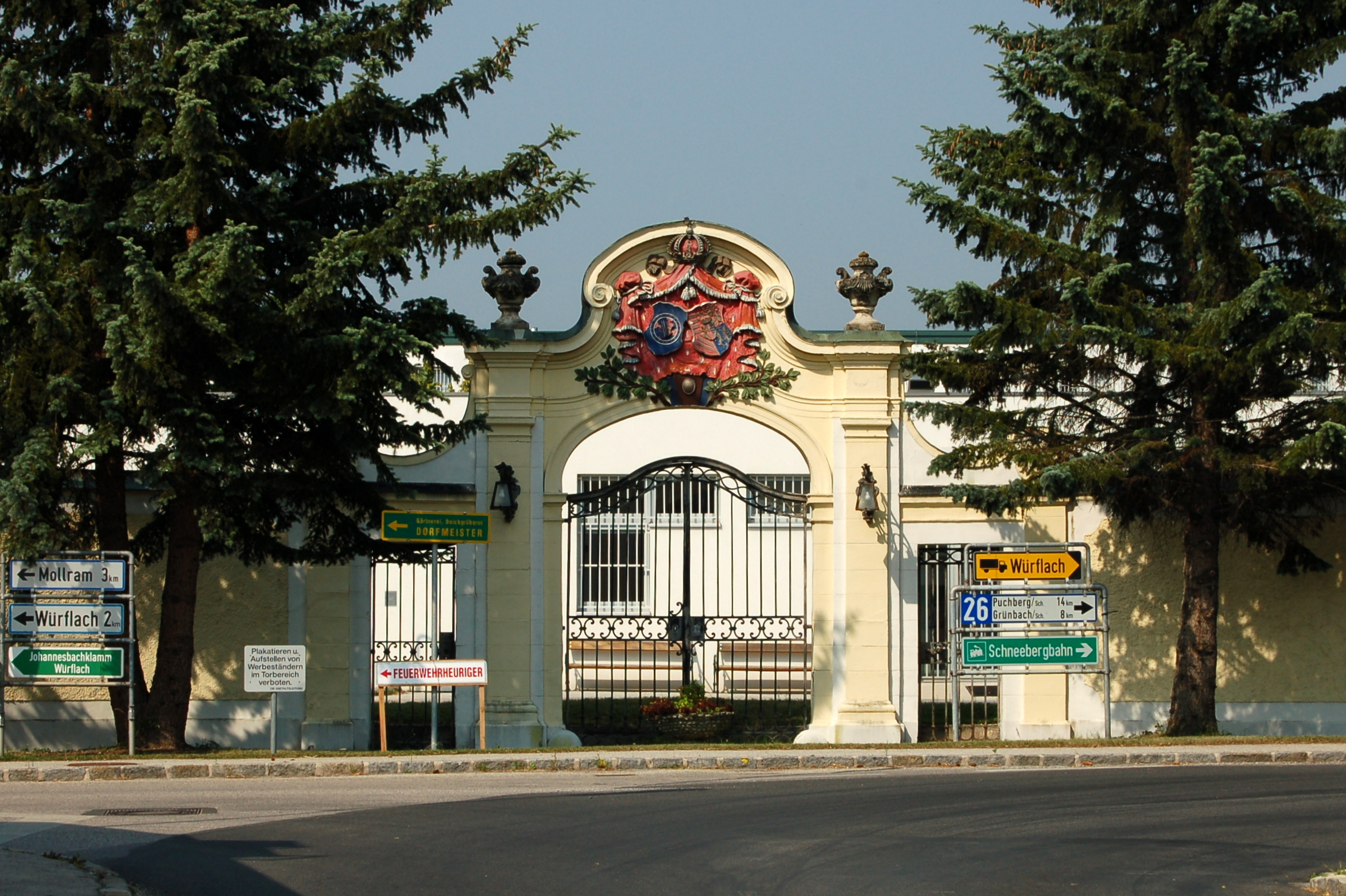 Baroque portal of otherwise demolished Gerasdorf am Steinfeld palace, municipality St. Egyden am Steinfeld, Lower Austria